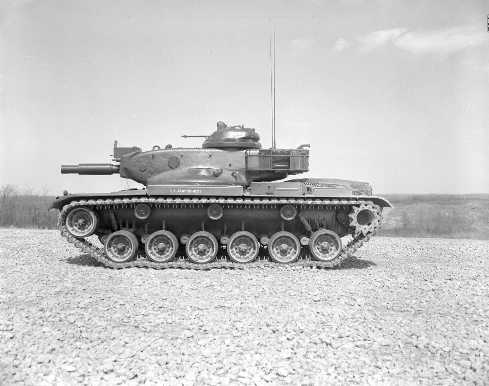 Experimental version of the M60A2 tank. US ARMY PHOTO Courtesy of the Patton Museum